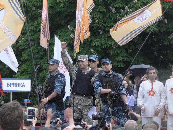 Valery Bolotov proclaiming indepence in Luhansk, 12.05.2014 If you are using this picture elsewhere, I'd be glad to receive a notice :)